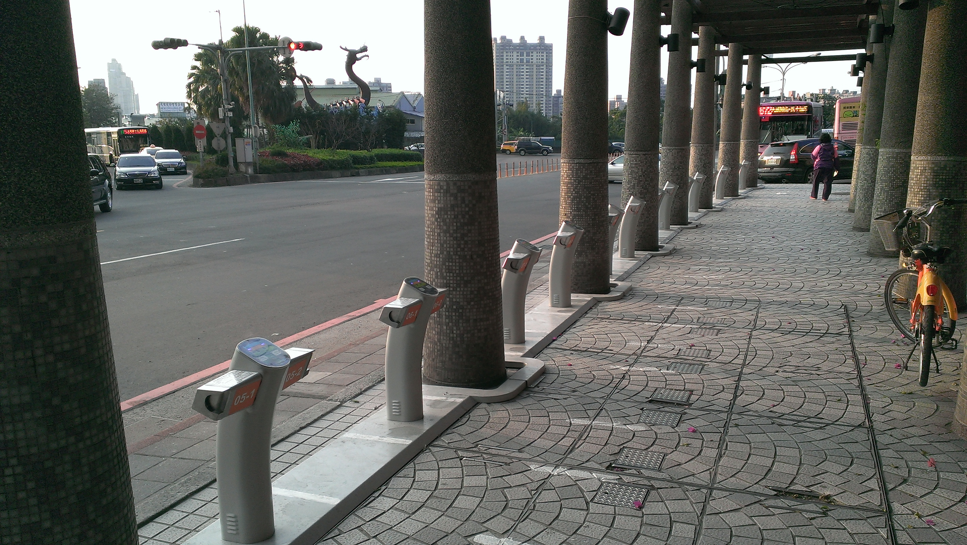 YouBike First Site in New Taipei City